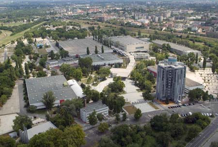 Hungaexpo, Kőbánya, Budapest, Hungary, aerial photography